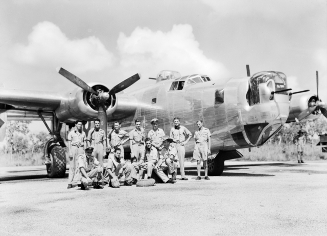 AWM caption : Fenton, NT. 1945-03. An informal group portrait of a crew of a Consolidated B-24 Liberator bomber aircraft of No. 21 Squadron RAAF, standing beside their aircraft. Left to right: Back row: Flight Sergeant (Flt Sgt) J. Waddell of Sydney, NSW Flt Sgt L. Rhine of Sydney, NSW Flt Sgt K. J. White of Sydney, NSW Sergeant W. T. Sayer of Launceston, Tas Warrant Officer (WO) C. G. Vickers of Melbourne, Vic Flying Officer B. T. Jordan of Adelaide, SA Flight Lieutenant (Flt Lt) E. V. Ford of Melbourne, Vic Front row: WO N. A. Drury of Melbourne, Vic Flt Sgt I. Faichnie of Melbourne, Vic WO A. N. J. Collins of Sydney, NSW Flt Lt W. Laing of Perth, WA